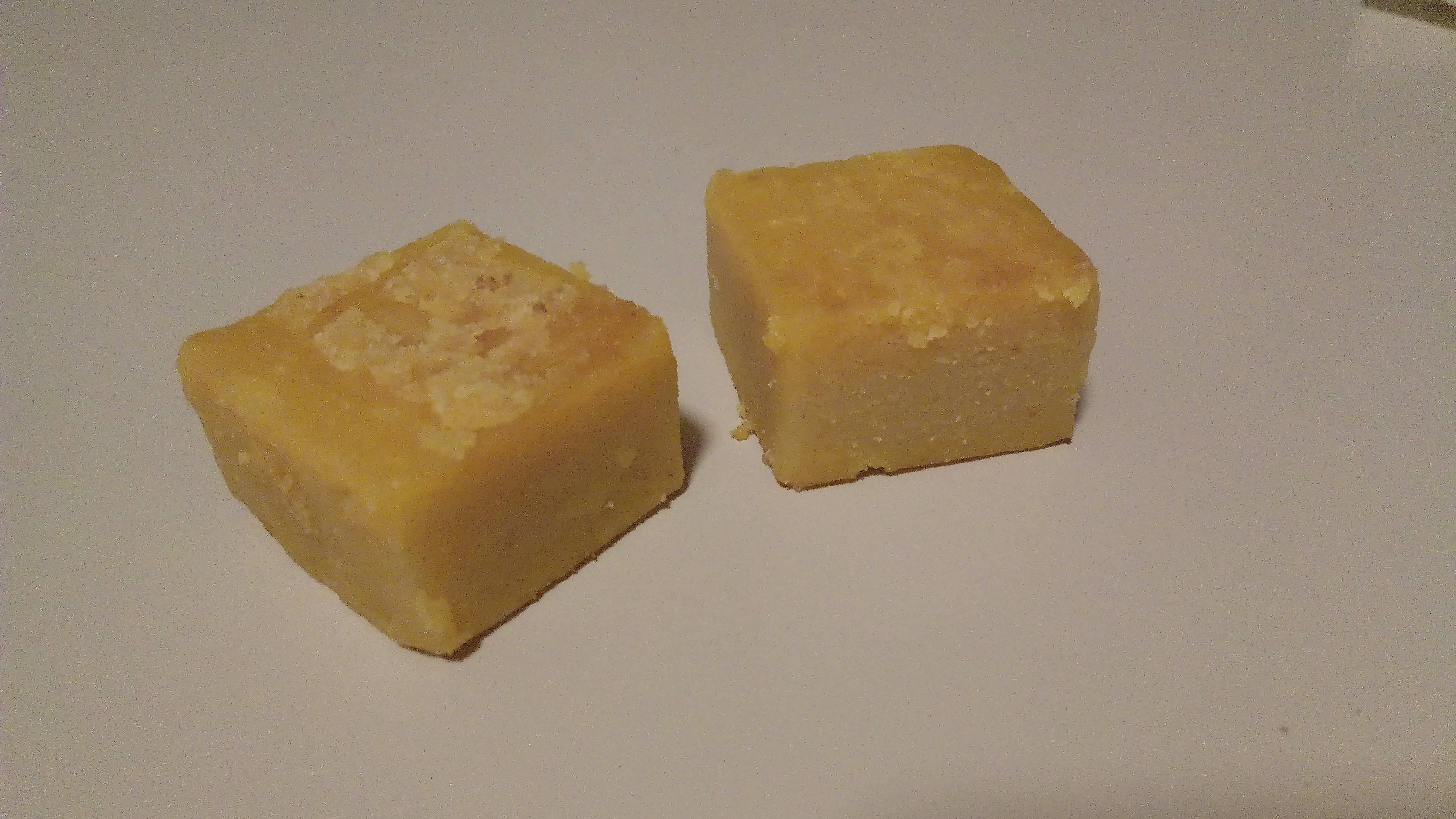 Butter cookies in the Groninger city of Winschoten, Oldambt